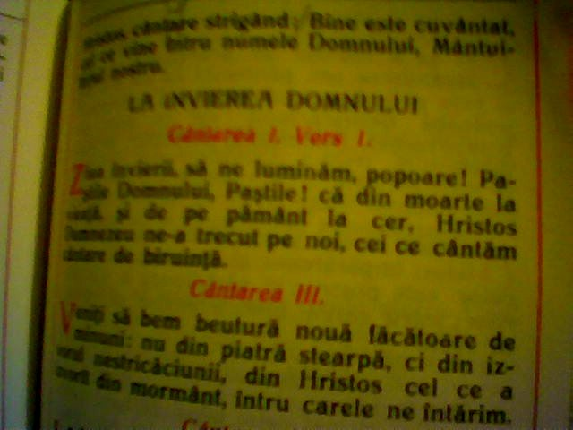 Horologe / Horologion (Byzantine Book of Hours)